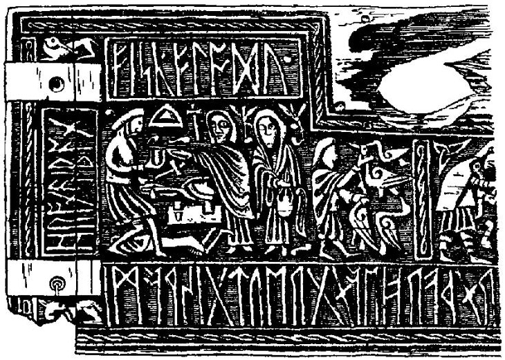 Drawing of a portion of Franks Casket relevant to the tale of “Wayland the Smith”: “The earliest extant record of the Wayland legend is the representation in carved ivory on a casket of Northumbrian workmanship of a date not later than the beginning of the 8th century. The fragments of this casket, known as the Franks casket, came into the possession of a professor at Clermont in Auvergne about the middle of the last century, and was presented to the British Museum by Sir A. W. Franks, who had bought it in Paris for a dealer. One fragment is in Florence. The left-hand compartment of the front of the casket shows Völundr holding with a pair of tongs the skull of one of Níþoþr's children, which he is fashioning into a goblet. The boy's body lies at his feet. Bodvildr and her attendant also appear, and Egill, who in one version made Völundr's wings, is depicted in the act of catching birds.”